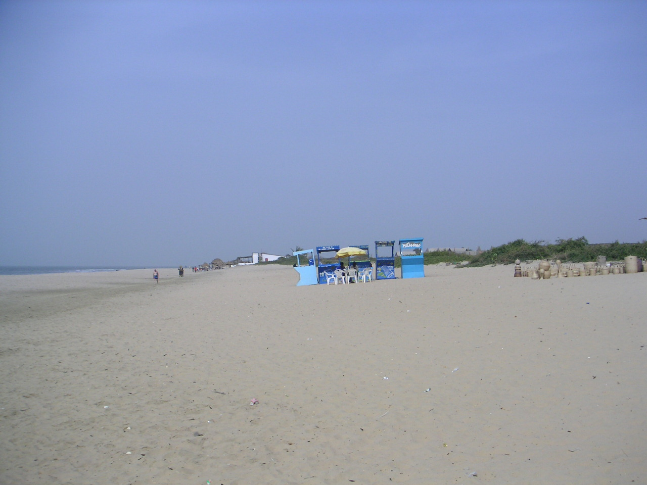 Kololi Beach. Gambia. Photo: Soman